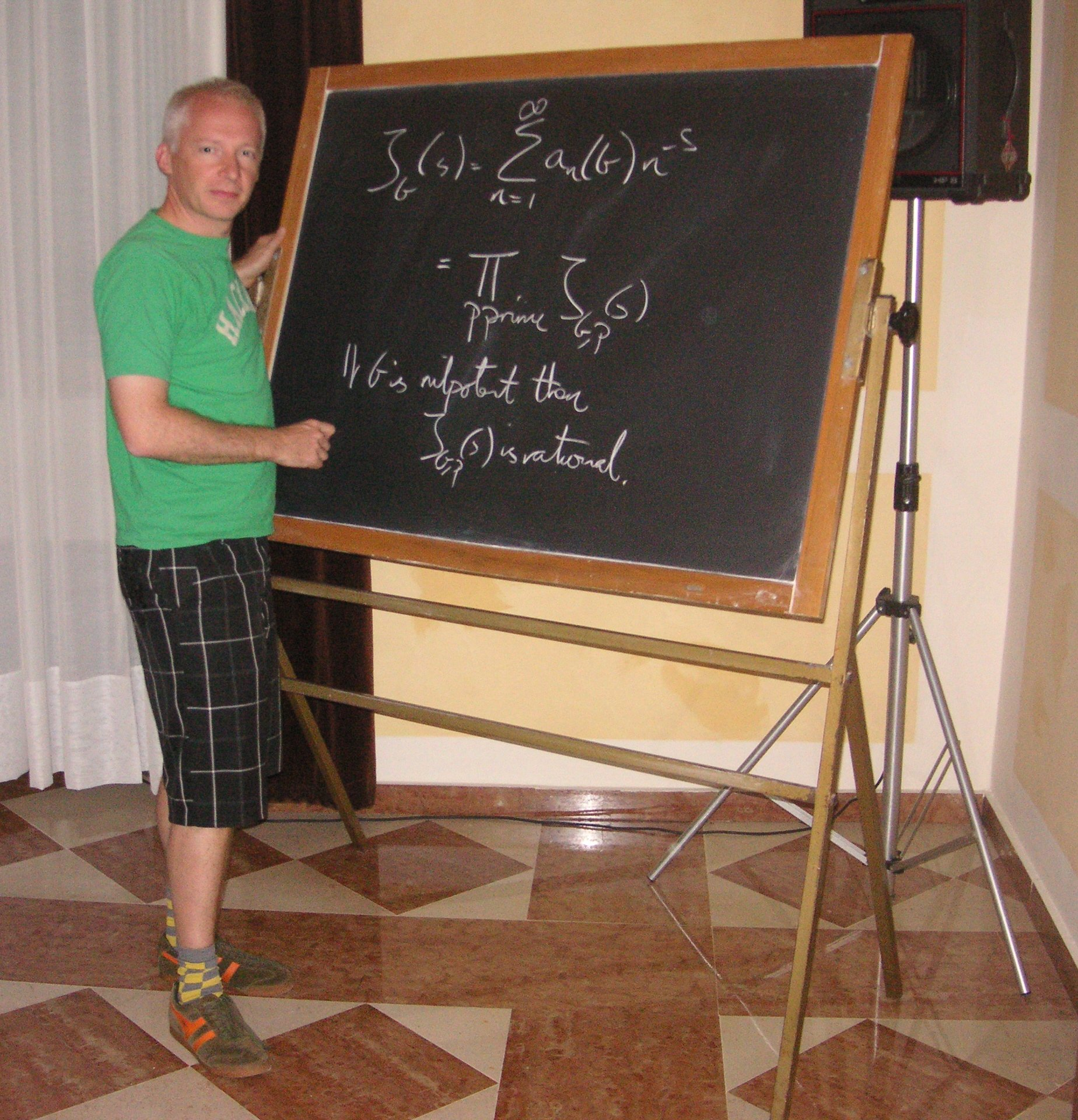 Marcus du Sautoy at the blackboard